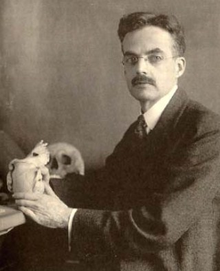 Gregory in 1916